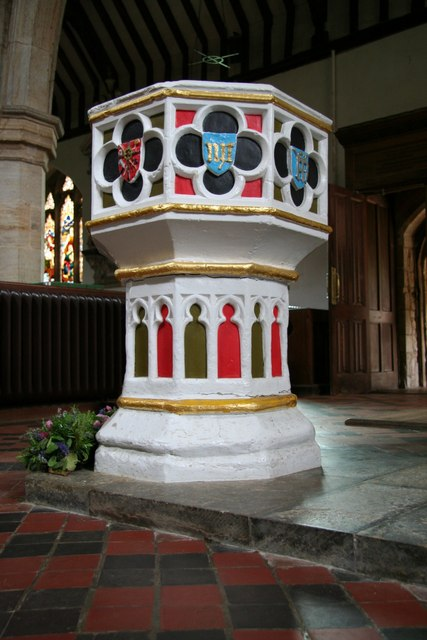 St.John the Baptist's font, near to Penshurst, Kent, Great Britain. Brightly painted 15th century font in St.John the Baptist's church